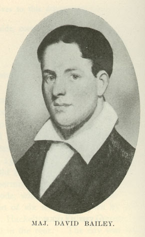 Major David Bailey, Illinois Militia during the Black Hawk War (1832).